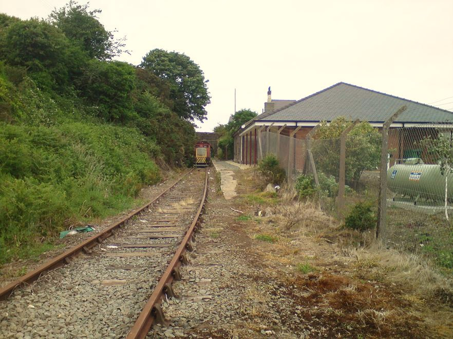 A photo of the disused Llanerch-y-Medd railway station, Anglesey